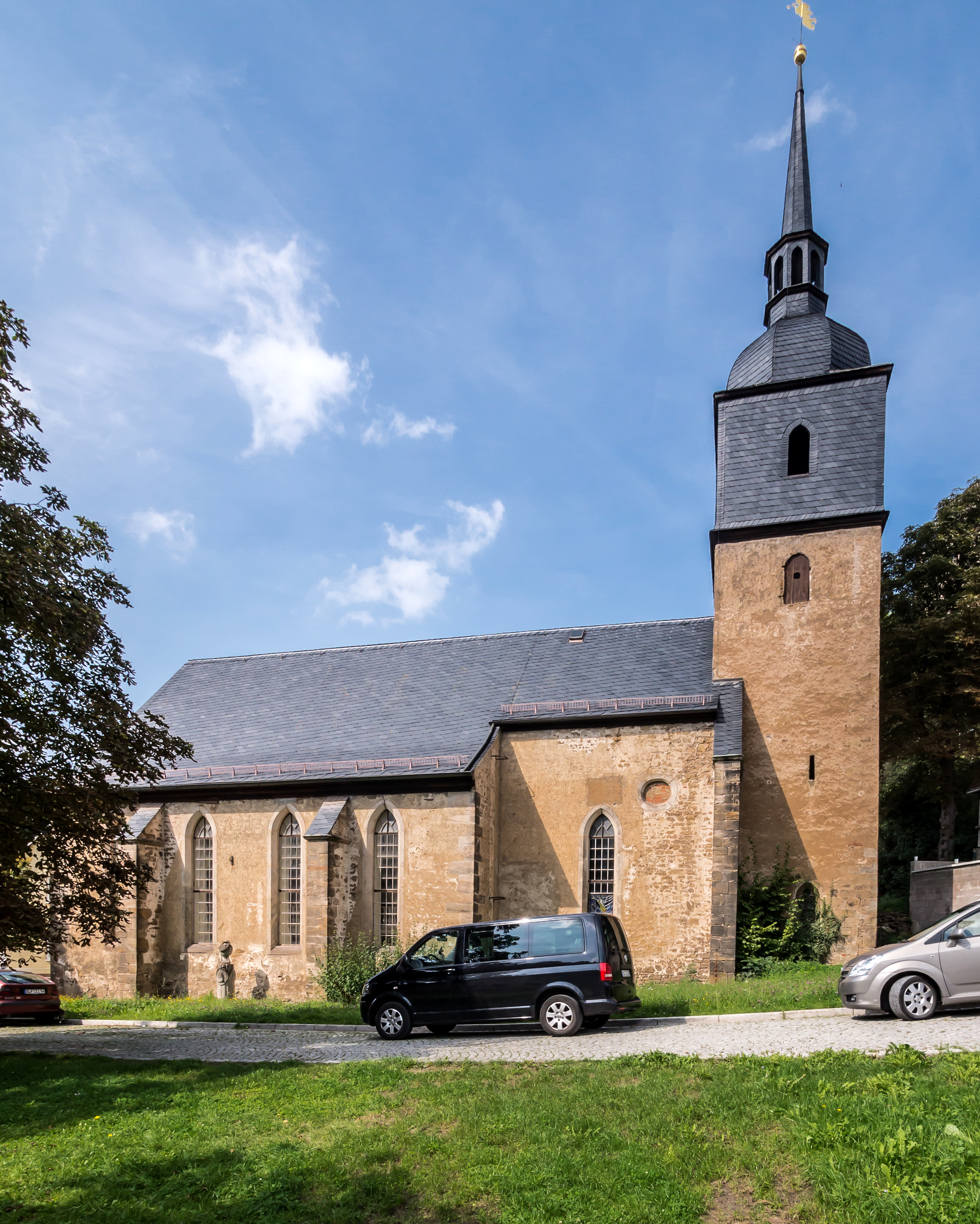 Könitz Friedrich-Ebert-Straße 29 Kirche mit Ausstattung/Bestandteil Denkmalensemble "Um die Kirche"